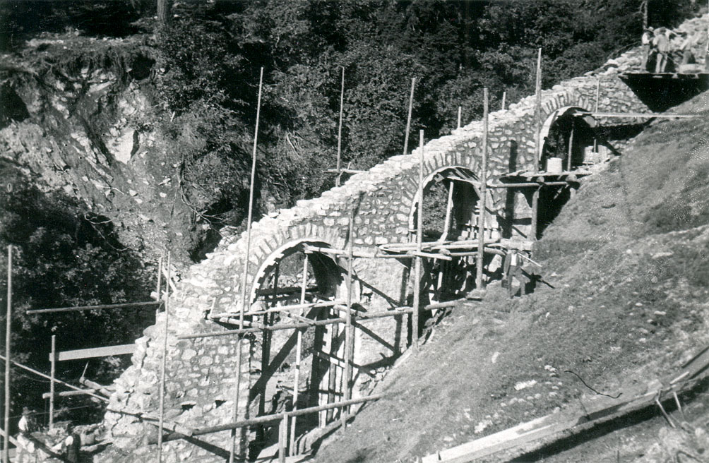 The construction of the Parsenn cable car, Davos, Switzerland